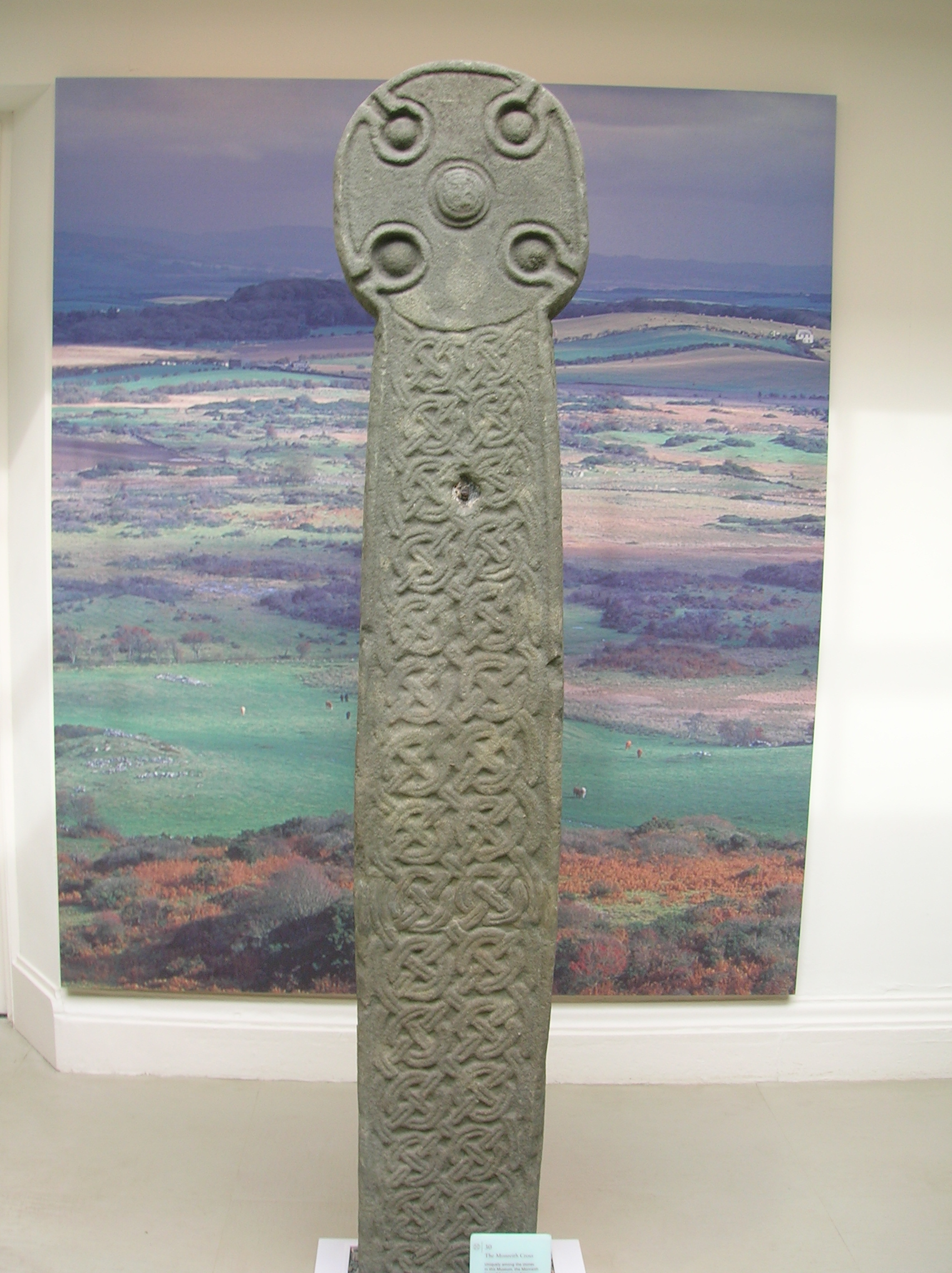 The Monreith Cross, Whithorn, The Machars, Dumfries & Galloway, Scotland.